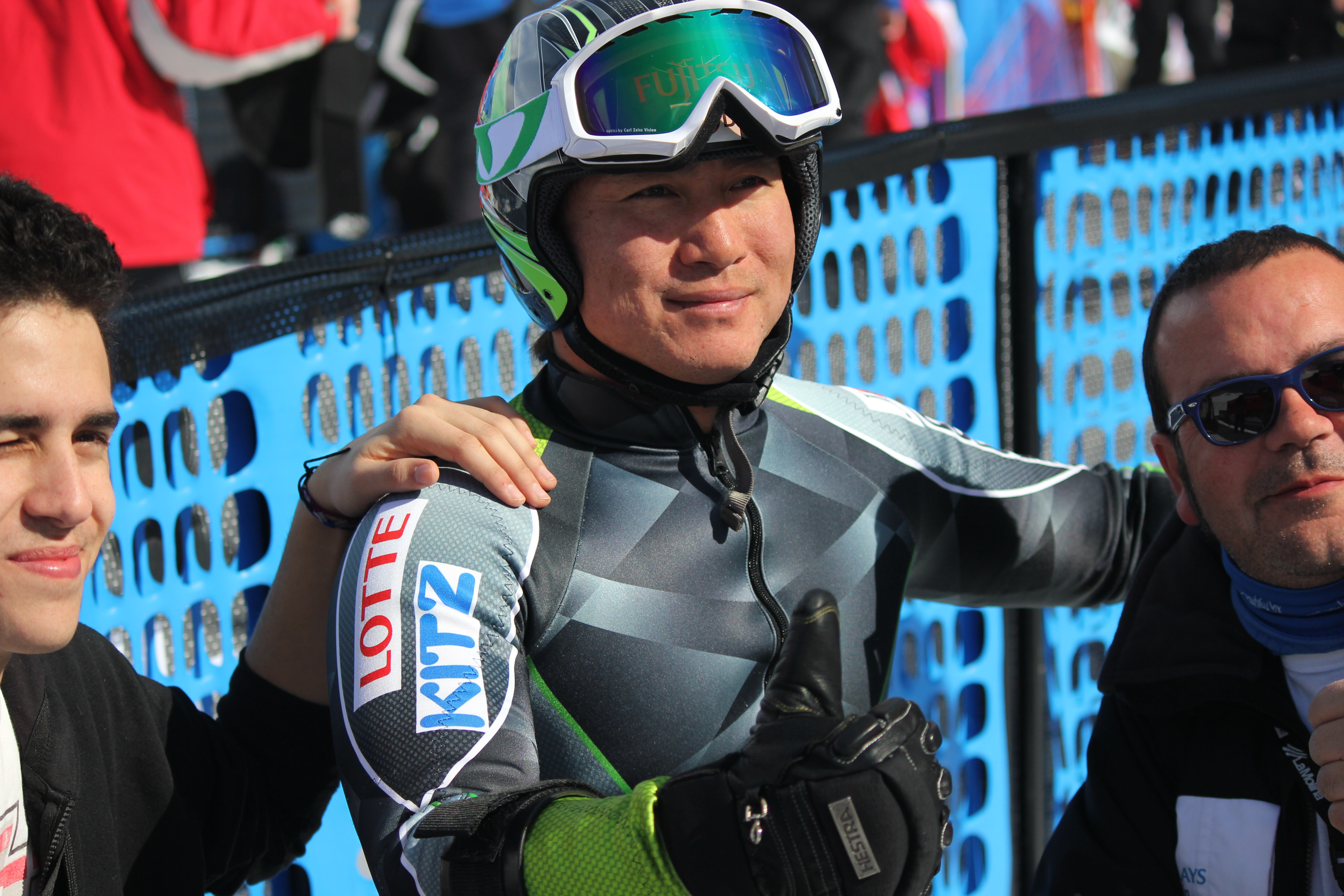 Taiki Morii after winning the Super-G day at the 2013 IPC Alpine World Championships in La Molina, Spain.